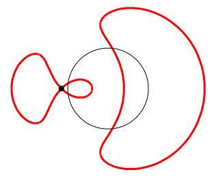 Two conchoid of circle with comon center